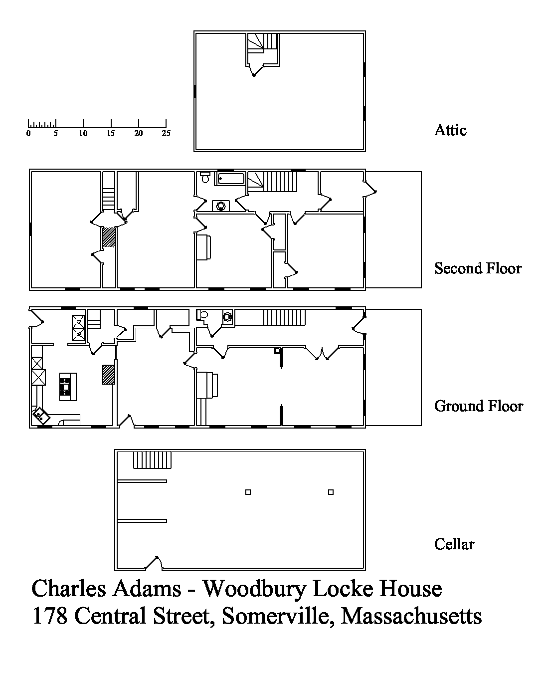 Floor Plans of Charles Adams - Woodbury Locke House, 178 Central Street, Somerville, MA as it existed in 1993.